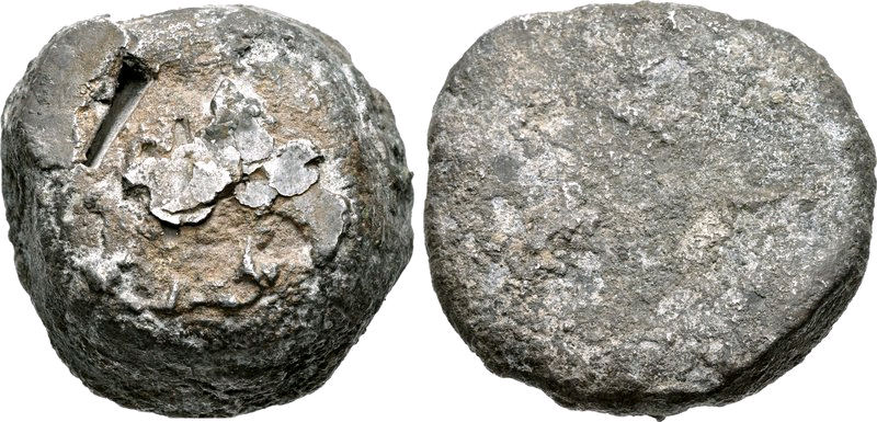 Ingot Pre-Mauryan (Gandhara). Period of Achaemenid Rule. Circa 5th century BCE